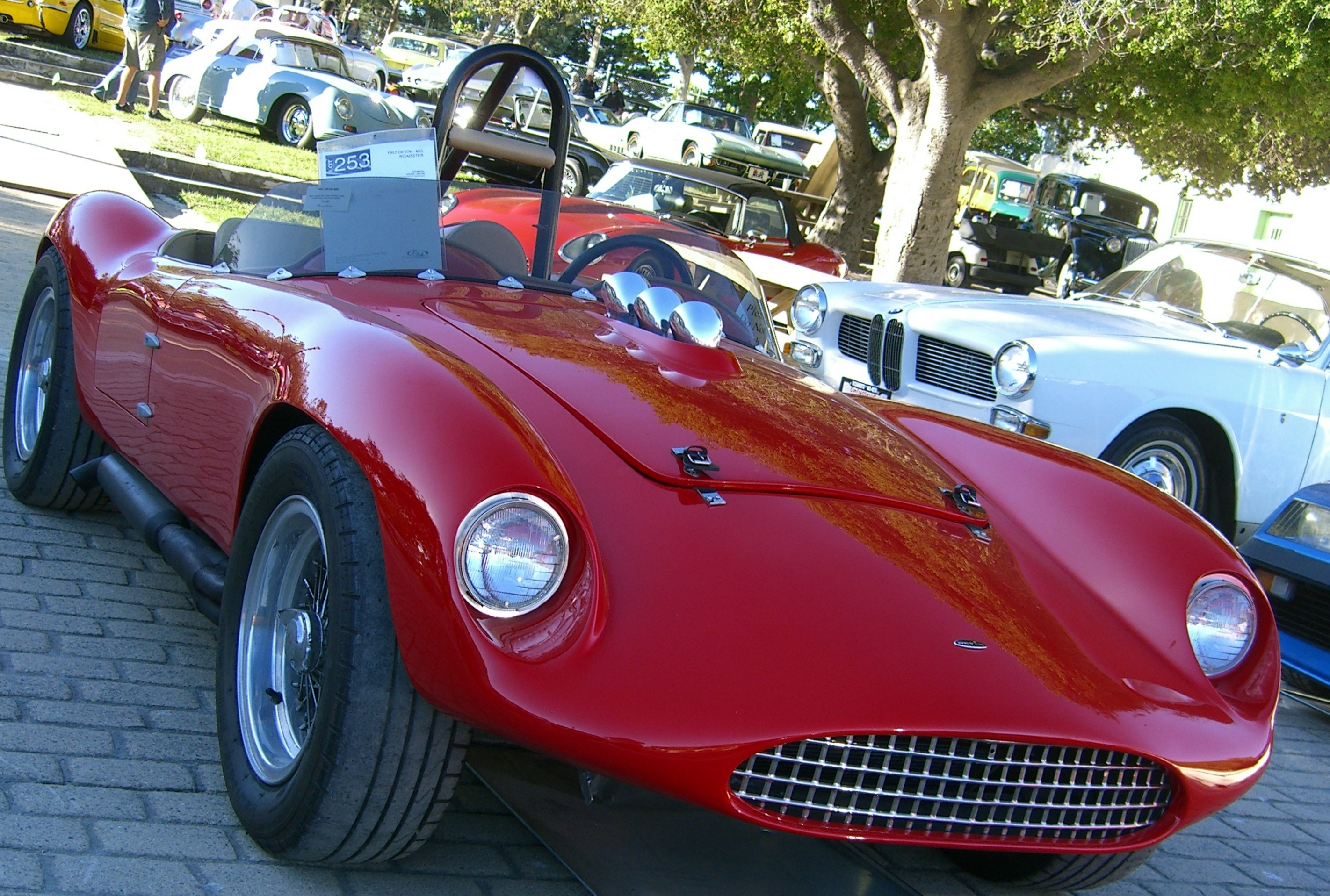 1957 Devin MG, now with Chevrolet 283 powertrain